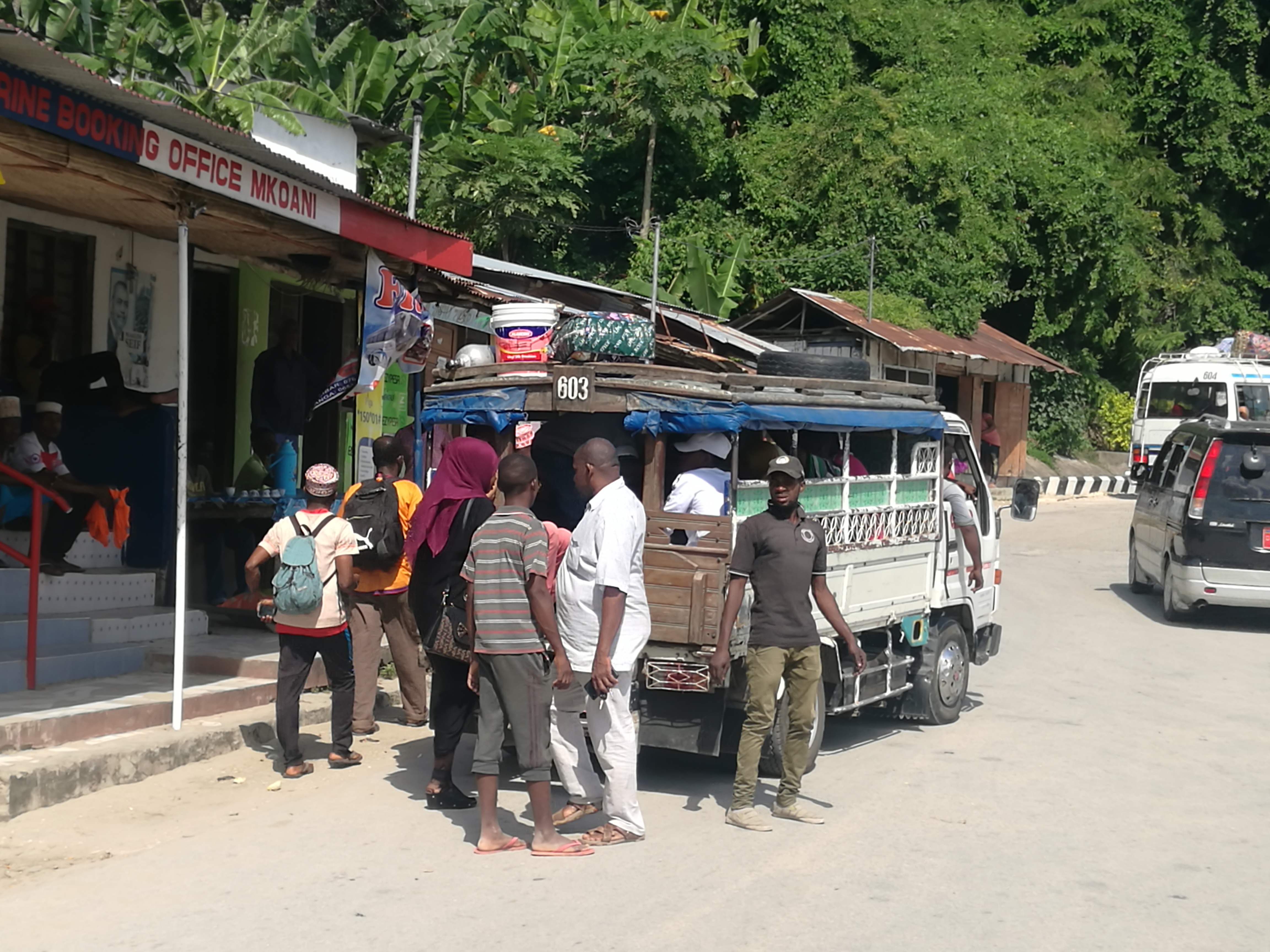 This is the common means the public move from a place to place in some parts of Tanzania, specifically Pemba Island. It is a cheap means of transport, that can be afforded by the majority. This is an image with the theme "Africa on the Move or Transport" from: Tanzania